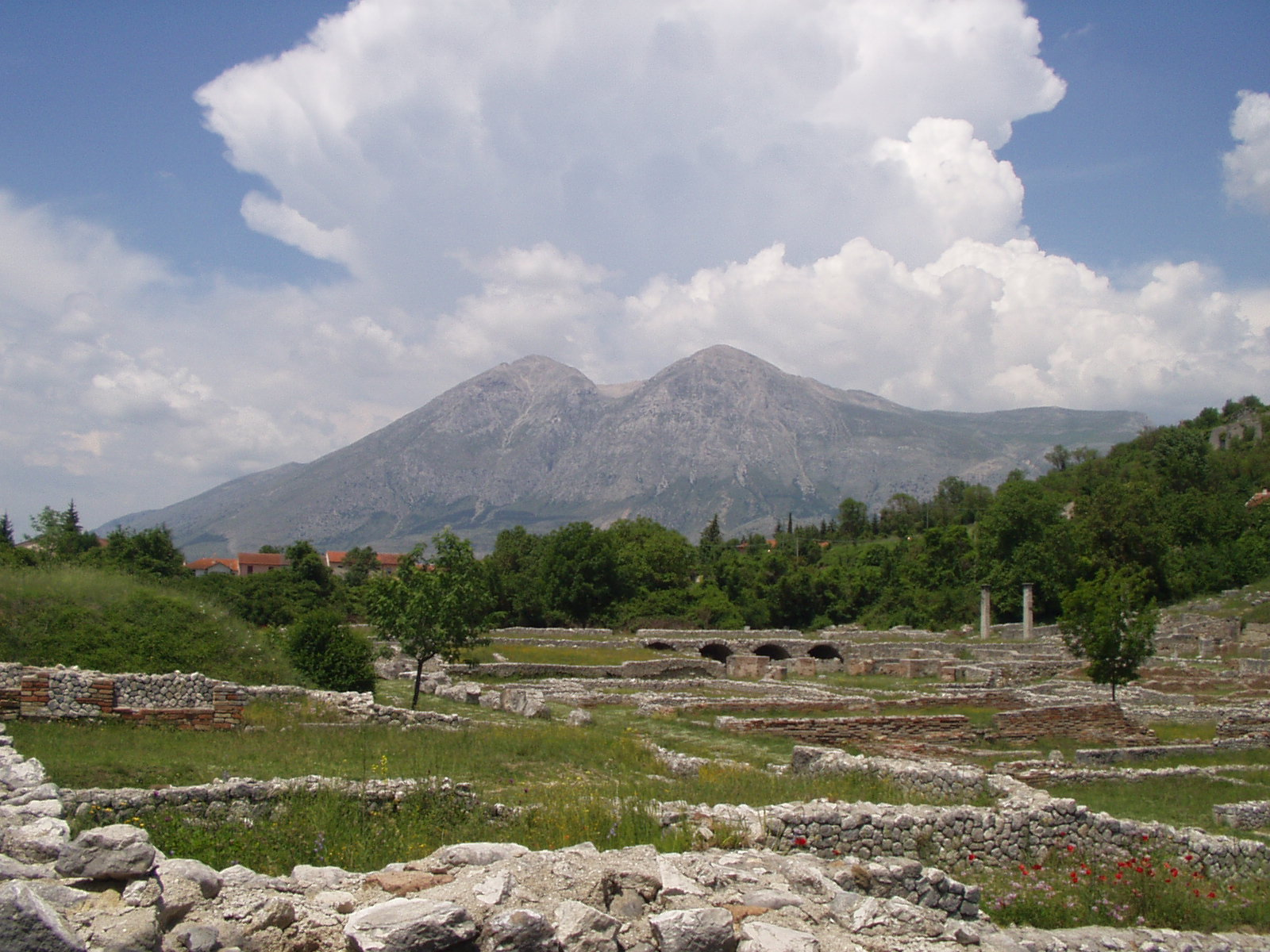 Alba Fucens in front of mount Velino